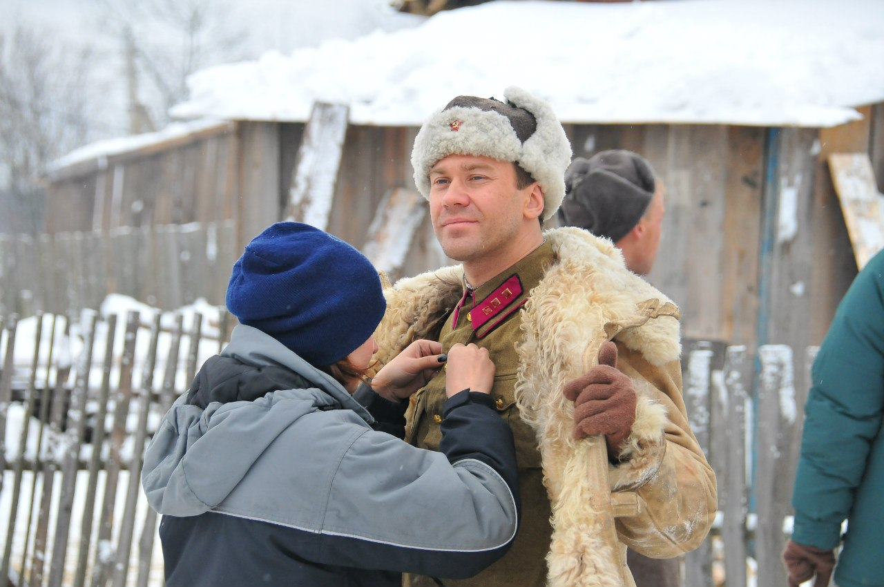 Politruk Klochkov played by Alexey Morozov on filming Panfilov's 28 men